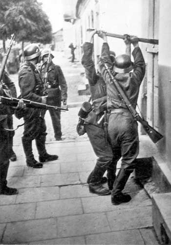 Wehrmacht soldiers breaking into houses in Western Poland in September 1939.